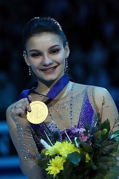 Sofia Samodurova at the 2019 European Championships - Awarding ceremony